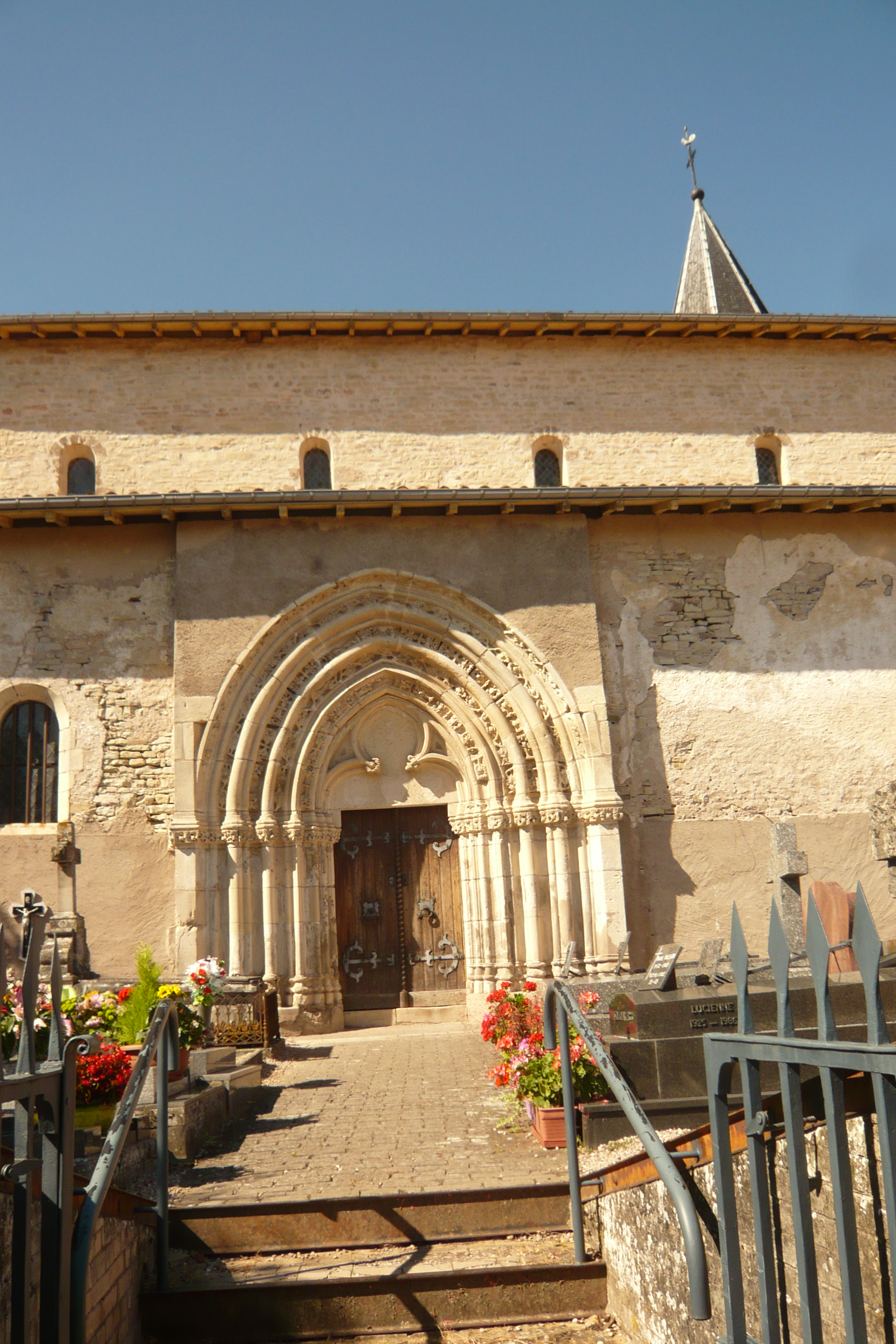 Roman church Froville, France